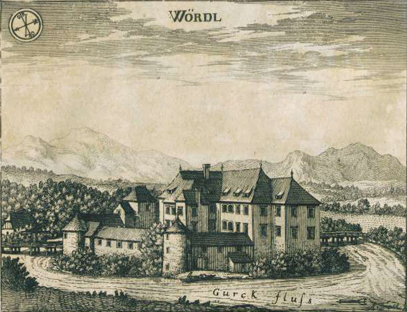 Otočec Castle (Wörld)